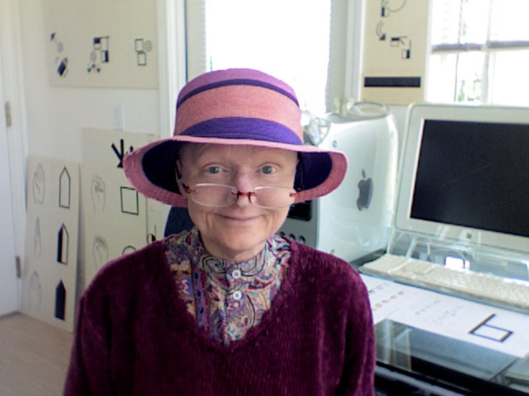 Valerie Sutton, Inventor SignWriting and Sutton Movement Writing